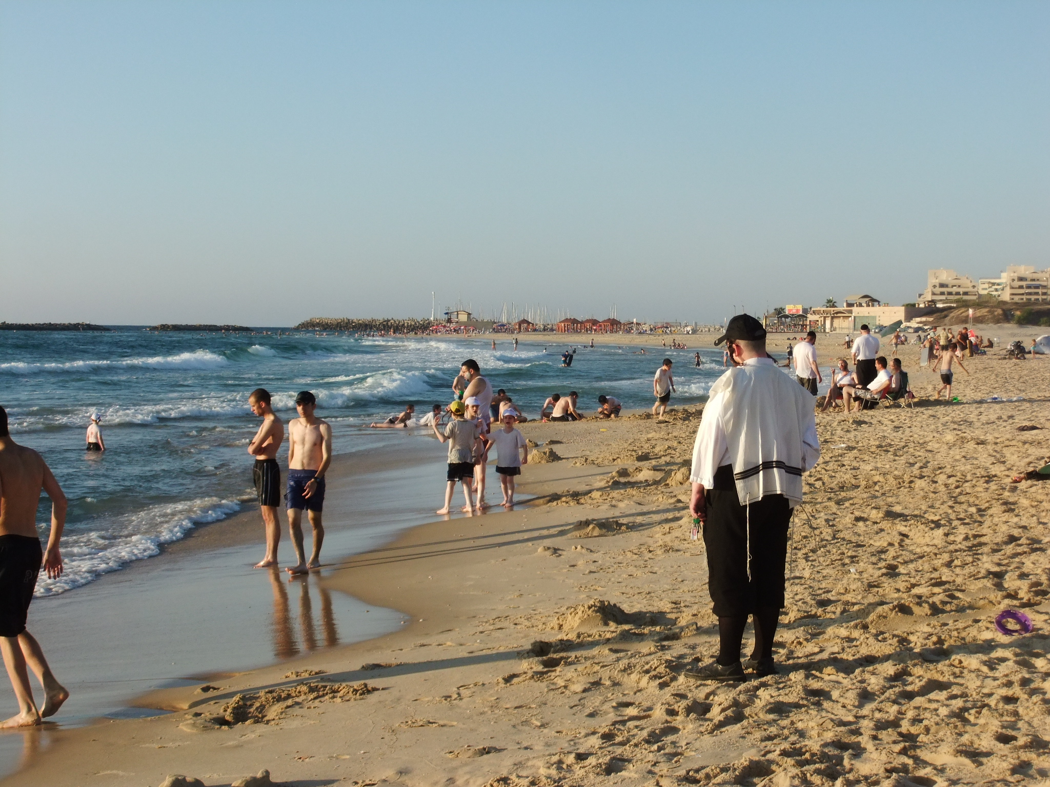 Separate beach in Ashkelon